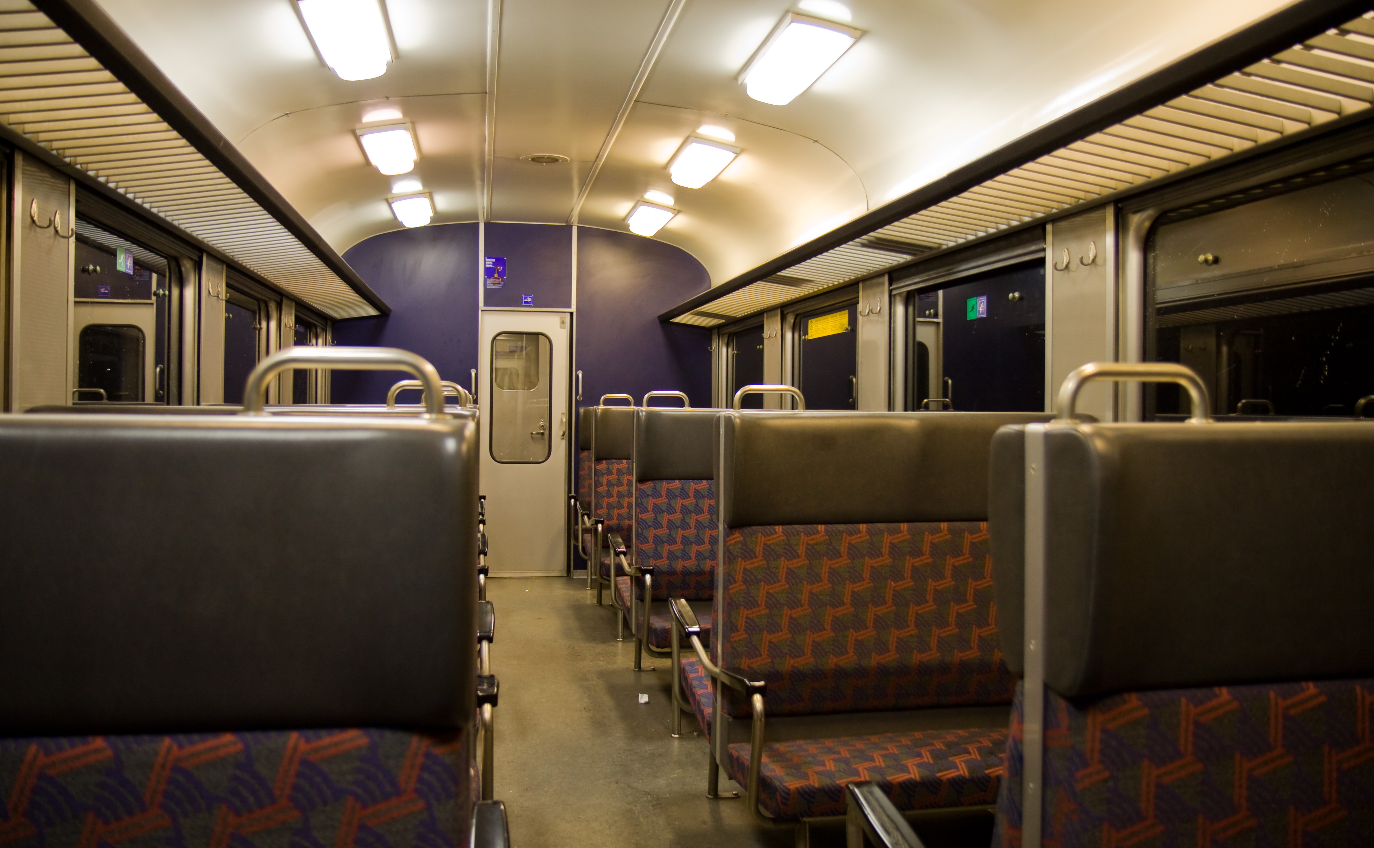 Second class interior of a modernized SBB-CFF-FFS RABDe 12/12 "Mirage" electric multiple unit.